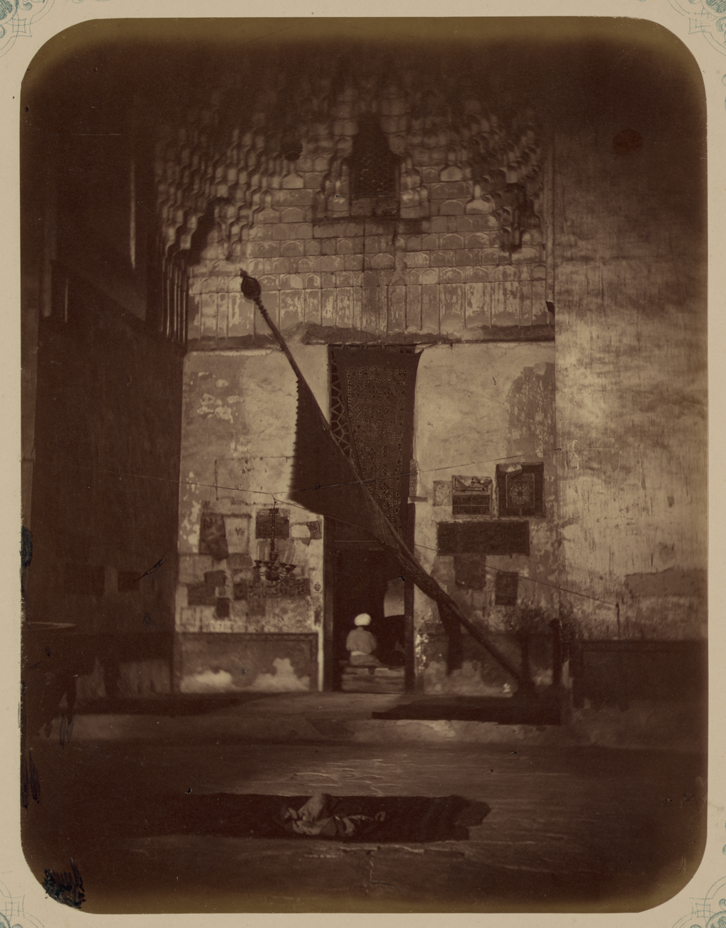 This photograph of the interior of the mausoleum of Khodzha Ahmed Iassavi in Yasi (present-day Turkestan, Kazakhstan) is from the archeological part of Turkestan Album. The six-volume photographic survey was produced in 1871-72 under the patronage of General Konstantin P. von Kaufman, the first governor-general (1867-82) of Turkestan, as the Russian Empire’s Central Asian territories were called. Yasi is associated with the Sufi mystic, Khodzha Ahmed Iassavi (1103-66), whose great reputation led Timur (Tamerlane) to construct a memorial shrine (khanaka) at his grave site. Built in 1396-98, the mausoleum displays features of Timurid architecture, then at its height in Samarkand. This view of the interior of the main structure shows the arched niche leading to the grave of the saint. The basic plan of the mausoleum is cruciform. Above the portal are bands of polychrome ceramic tiles. The niche culminates in an elaborate honey-comb (mocárabe) vault, also referred to as a stalactite vault in reference to the suspended decorative elements. Although the walls show some damage, the structure appears intact. The figure in prayer at the entrance gives an idea of the monumental scale of the mausoleum. Dimly visible on the left is the bronze ritual water basin. Islamic architecture; Niches; Photographic surveys; Sepulchral monuments; Tombs